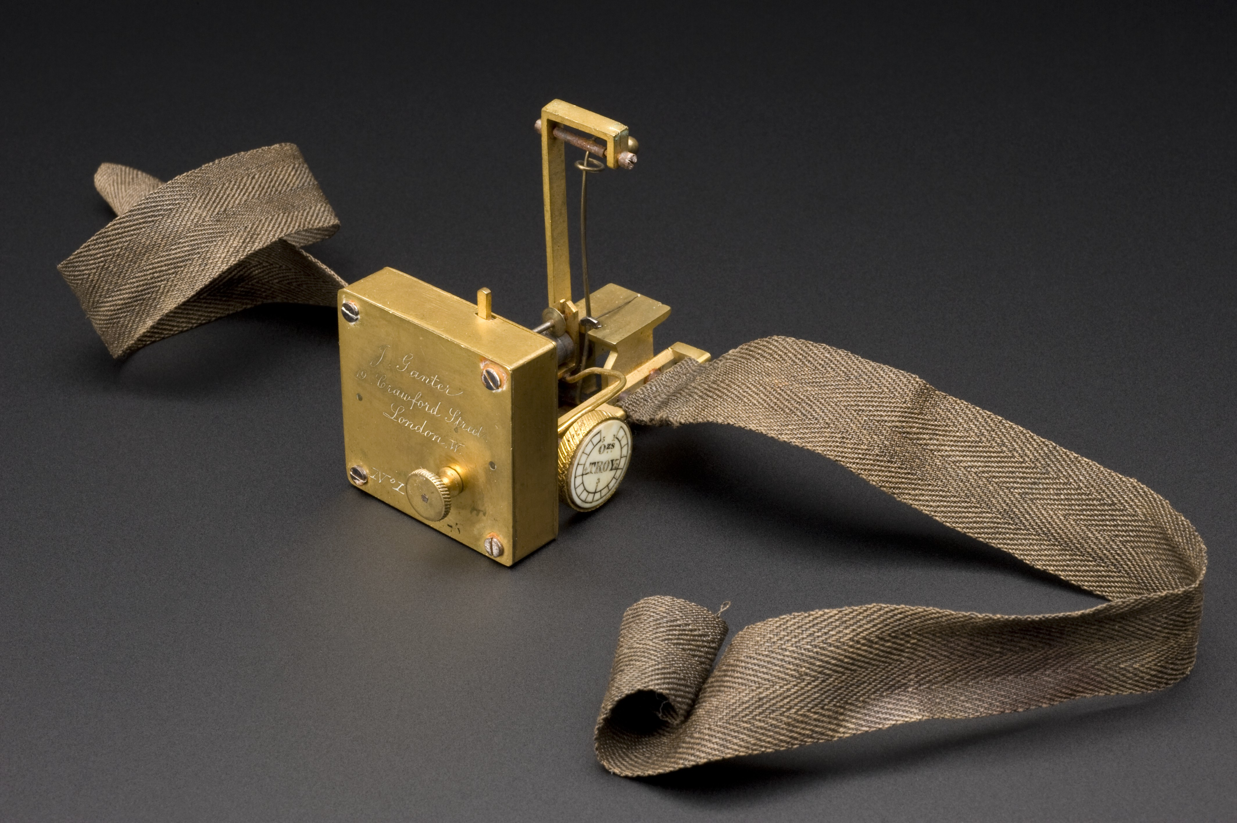 Blood pressure is measured and recorded using a sphygmograph. It is strapped to the wrist. The pulse beat is transmitted to a lever which records it on smoked paper. The first efficient sphygmograph was designed by Étienne-Jules Marey (1830-1904) in 1863. This example belonged to Dr Robert Ellis Dudgeon (1820-1904). He was a prominent figure in homeopathy. Dudgeon also made his own changes to Marey’s original design. It was made by instrument maker J. Gauter in 1876. In the late 1800s, physiology teachers used sphygmographs to visually demonstrate blood pressure. Instruments such as this were also valuable diagnostic aids. They were the predecessor of the modern arm cuffs physicians now use to measure blood pressure. maker: Ganter, J Place made: London, Greater London, England, United Kingdom Medical Photographic Library Keywords: sphygmograph; Pulse; Blood Pressure